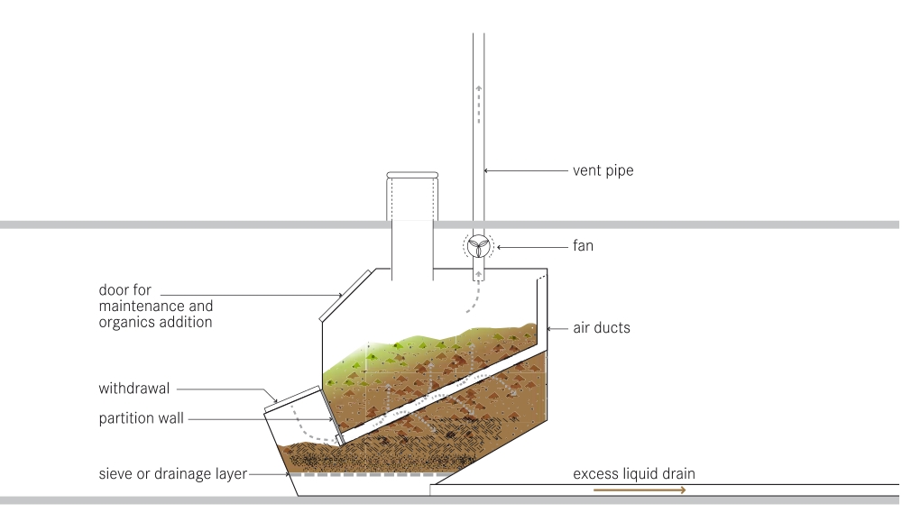 Schematic of the composting chamber